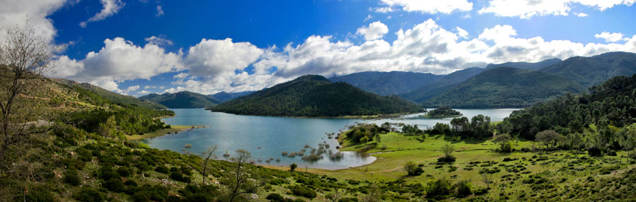 Panoramic photography Tranco swamp in the province of Jaén. Located in the heart of the Parque Natural de la Sierra de Cazorla, Segura and Las Villas.